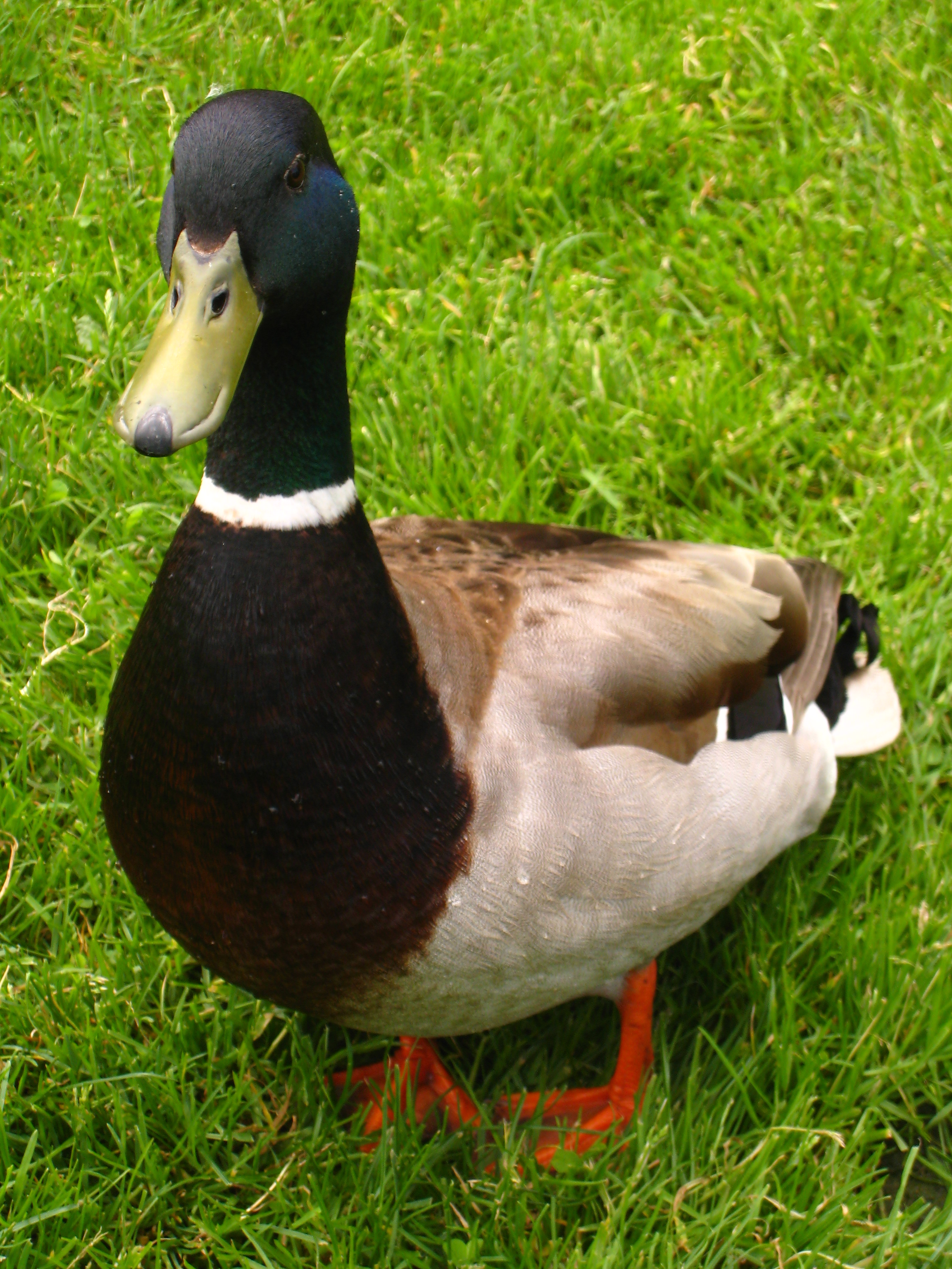 Mallard drake, Madison Park, Seattle